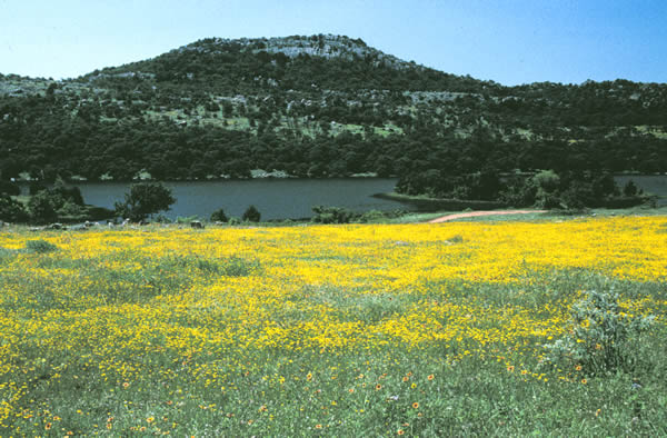 Mt Scott is the highest peak in the Wichita Mountains Wildlife Refuge, 10 miles North of Lawton, Oklahoma